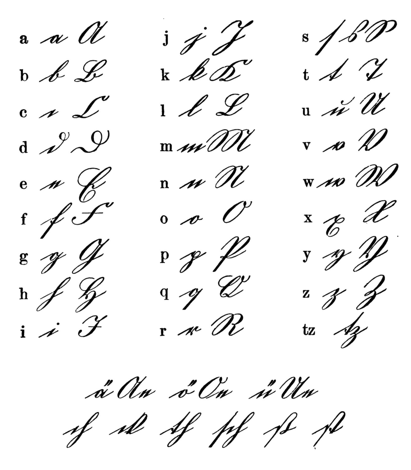 German kurrent script; the second to last line shows the umlauts ä, ö, ü and their respective capitalized versions Ae, Oe, Ue; the last line shows the ligatures of ch, ck, th, sch (ſch), ß (ſz) and st (ſt)